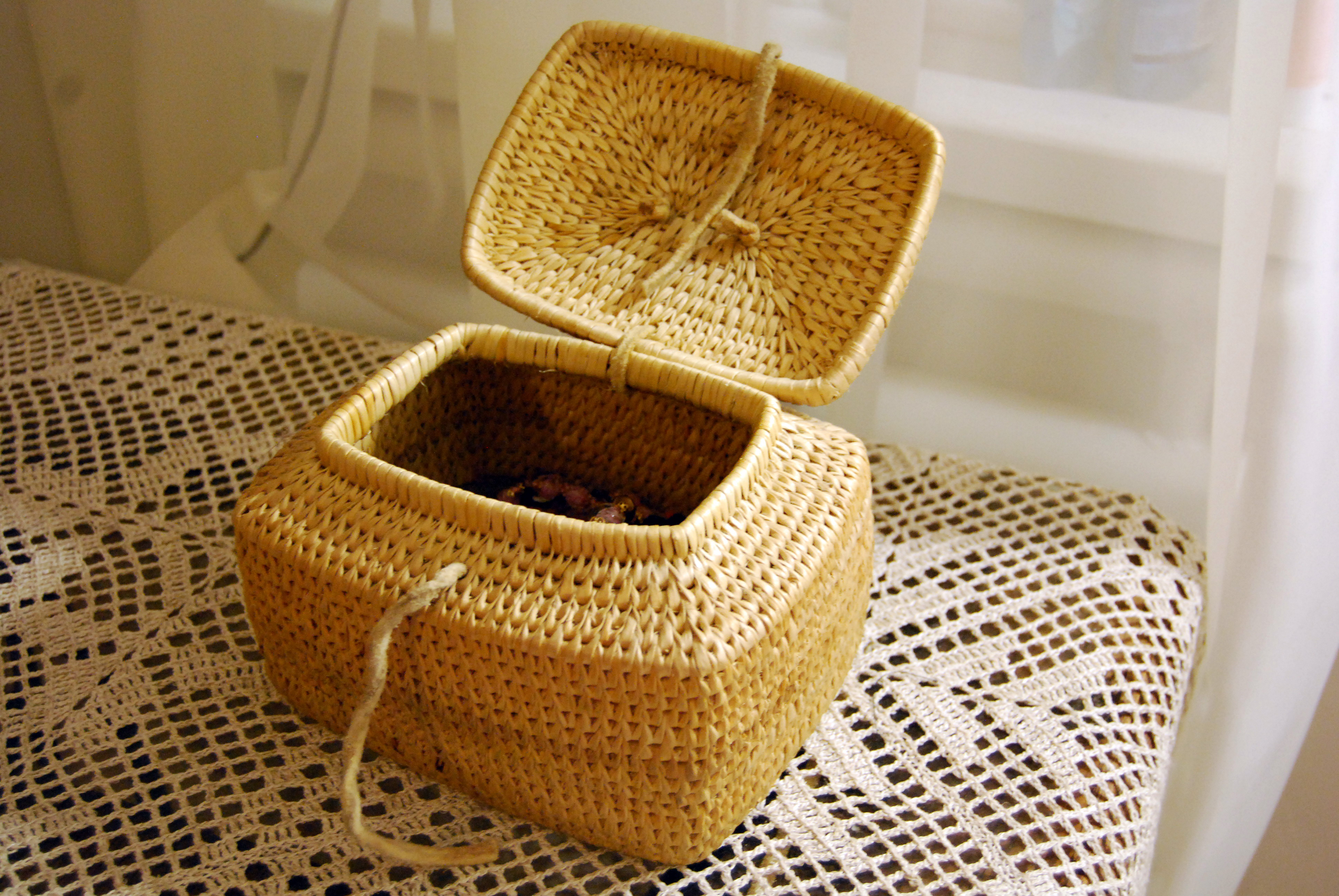 Kornevatik modern work (2007), p. Big Johan